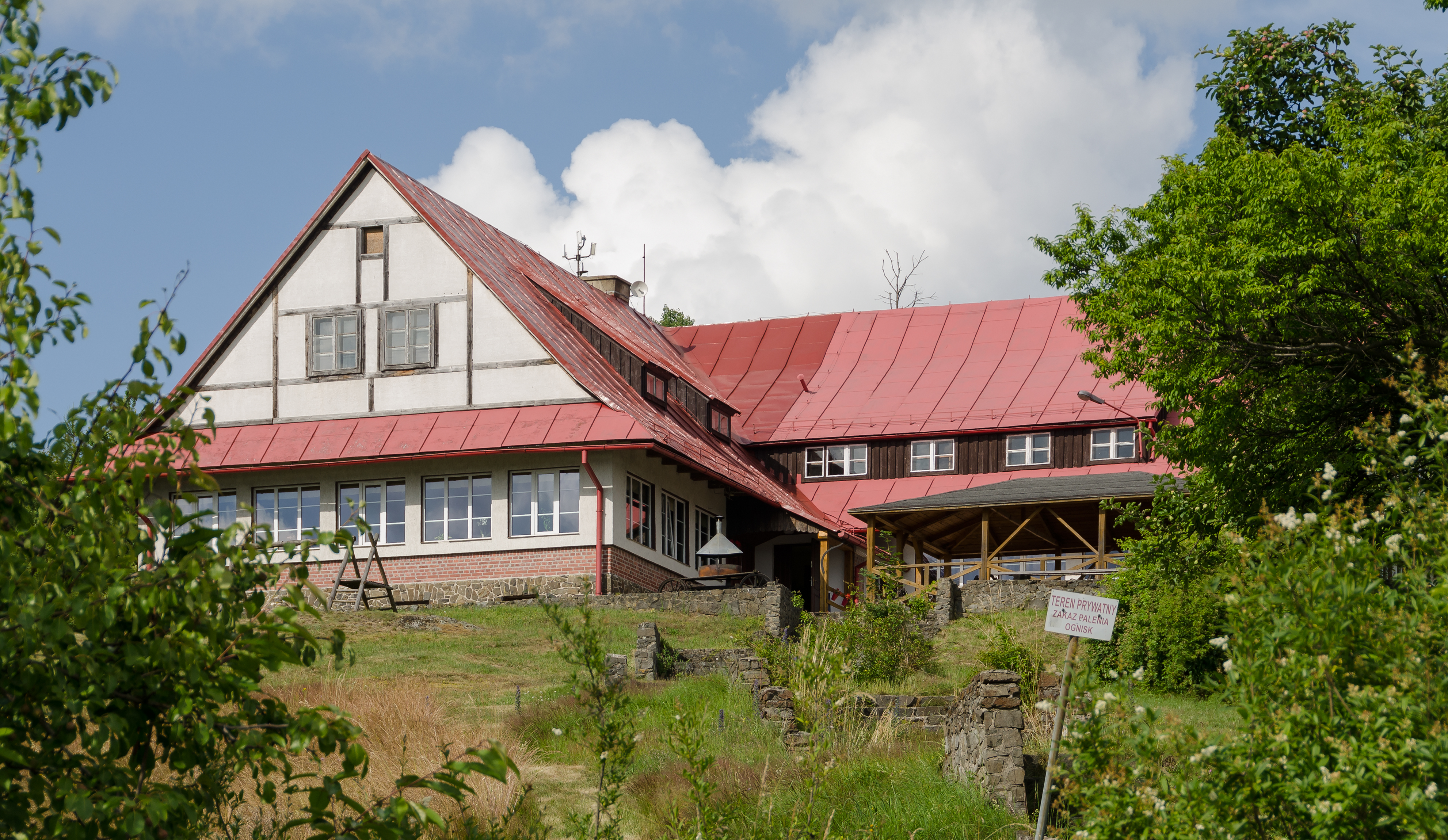 Kukułka inn